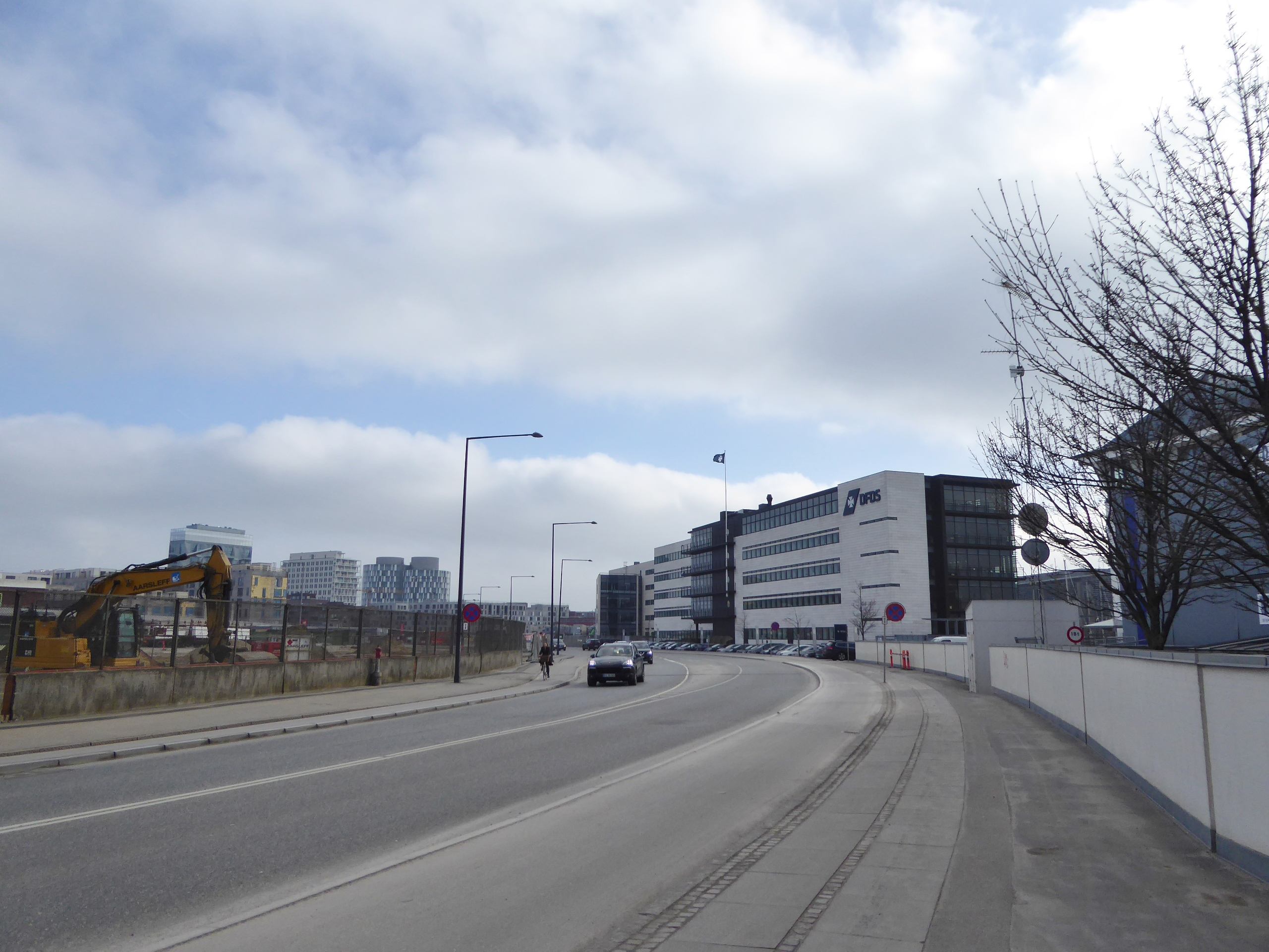 The street Sundkrogsgade in Nordhavn in Copenhagen.